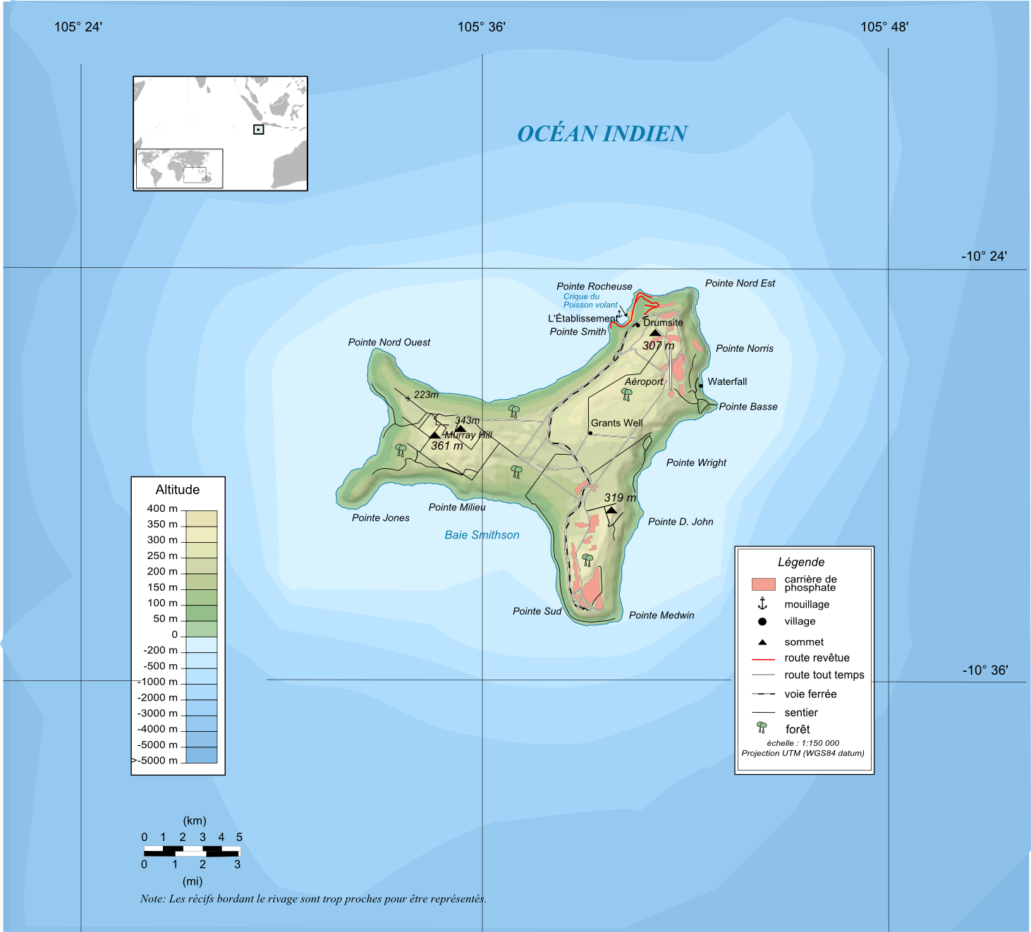 Topographic map in French of Christmas Island , Australie